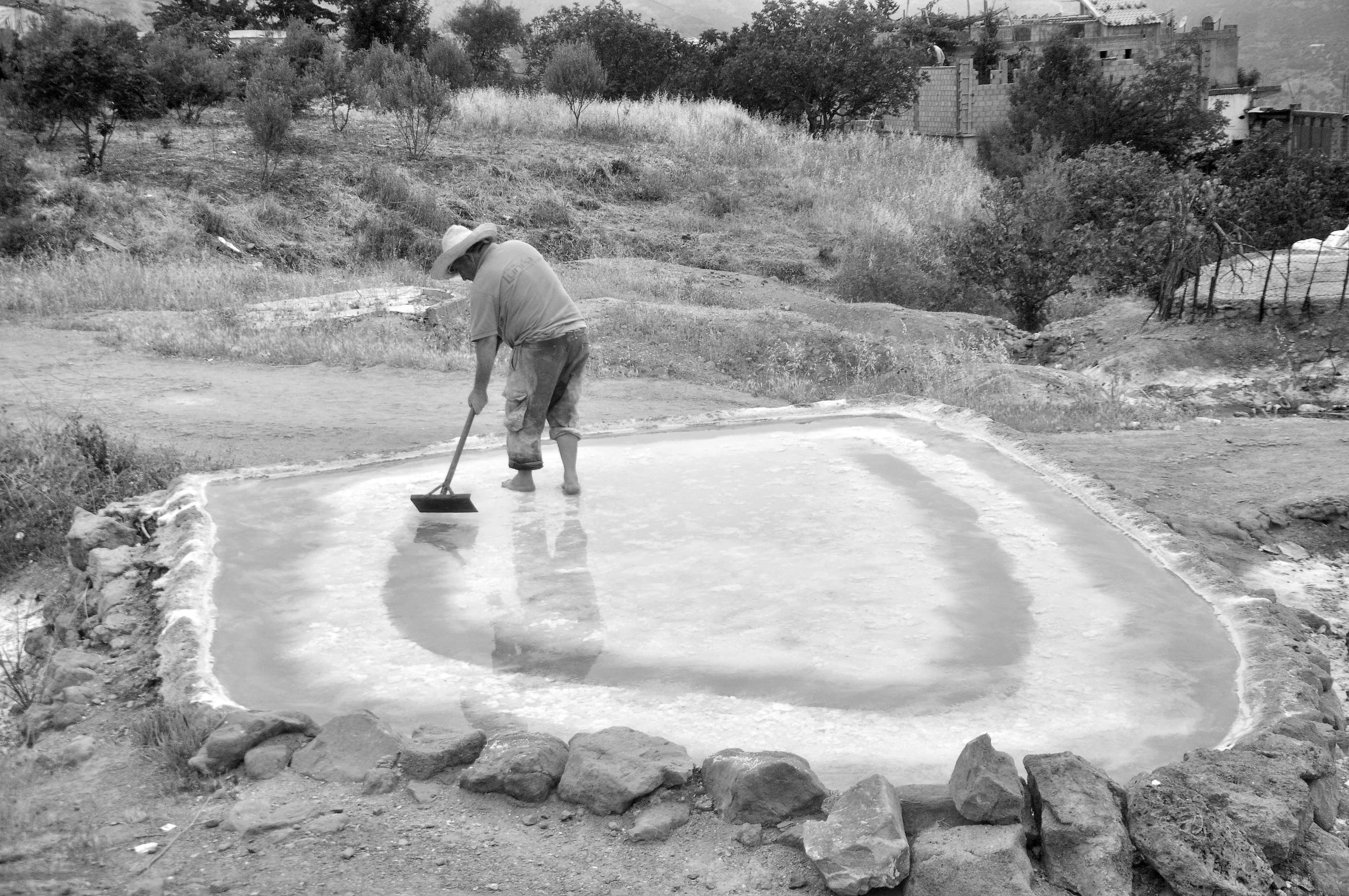 technique de rassemblement de sel et évaporation de l'eau. Village Ichekaven, région : Feraoune, commune de la wilaya de Bejaia This is an image of "African people at work" from Algeria